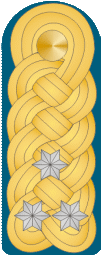 OF-9, OF-8 Army General 1918-1945